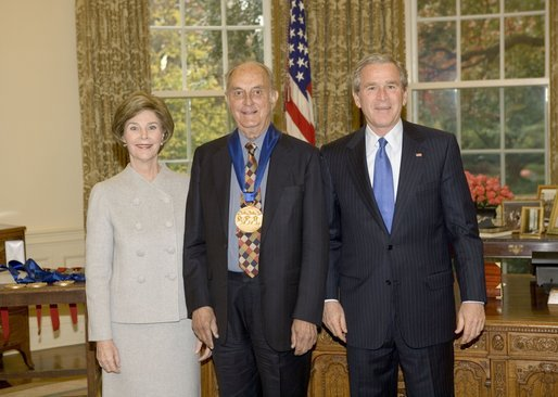 President George W. Bush and Laura Bush stand with author Louis Auchincloss, recipient of the 2005 National Medal of Arts, in the Oval Office Thursday, Nov. 10, 2005.